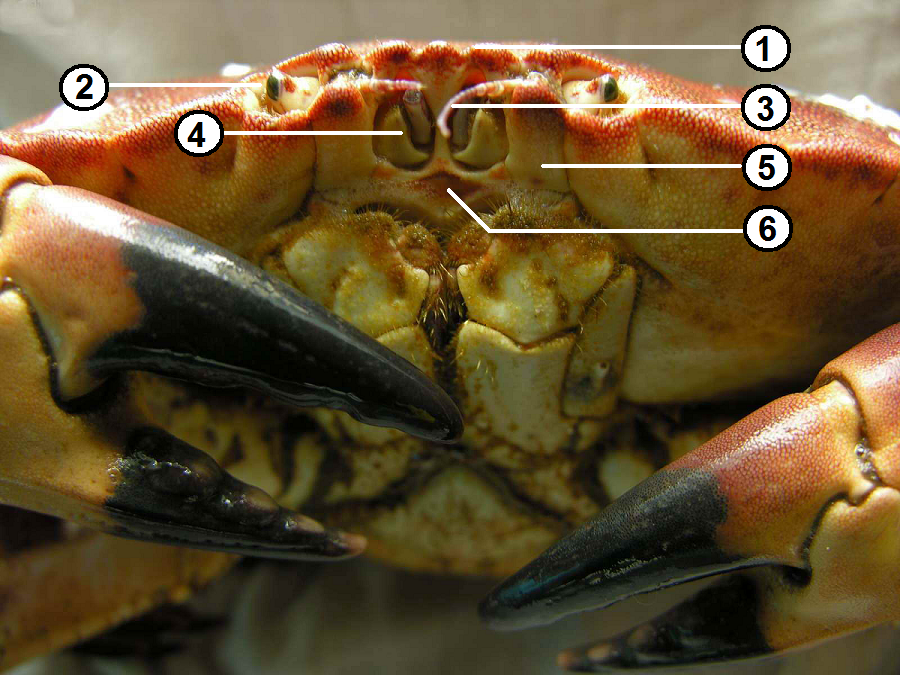 Summary Description self made. Boiro - Galicia - Spain Date20 October 2005SourceOwn workAuthorLuis Miguel Bugallo Sánchez (Lmbuga Commons)(Lmbuga Galipedia) Publicada por/Publish by: Luis Miguel Bugallo Sánchez self made. Boiro - Galicia - Spain